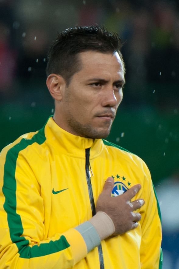 International Friendly Austria - Brazil November 18, 2014: Diego Alves